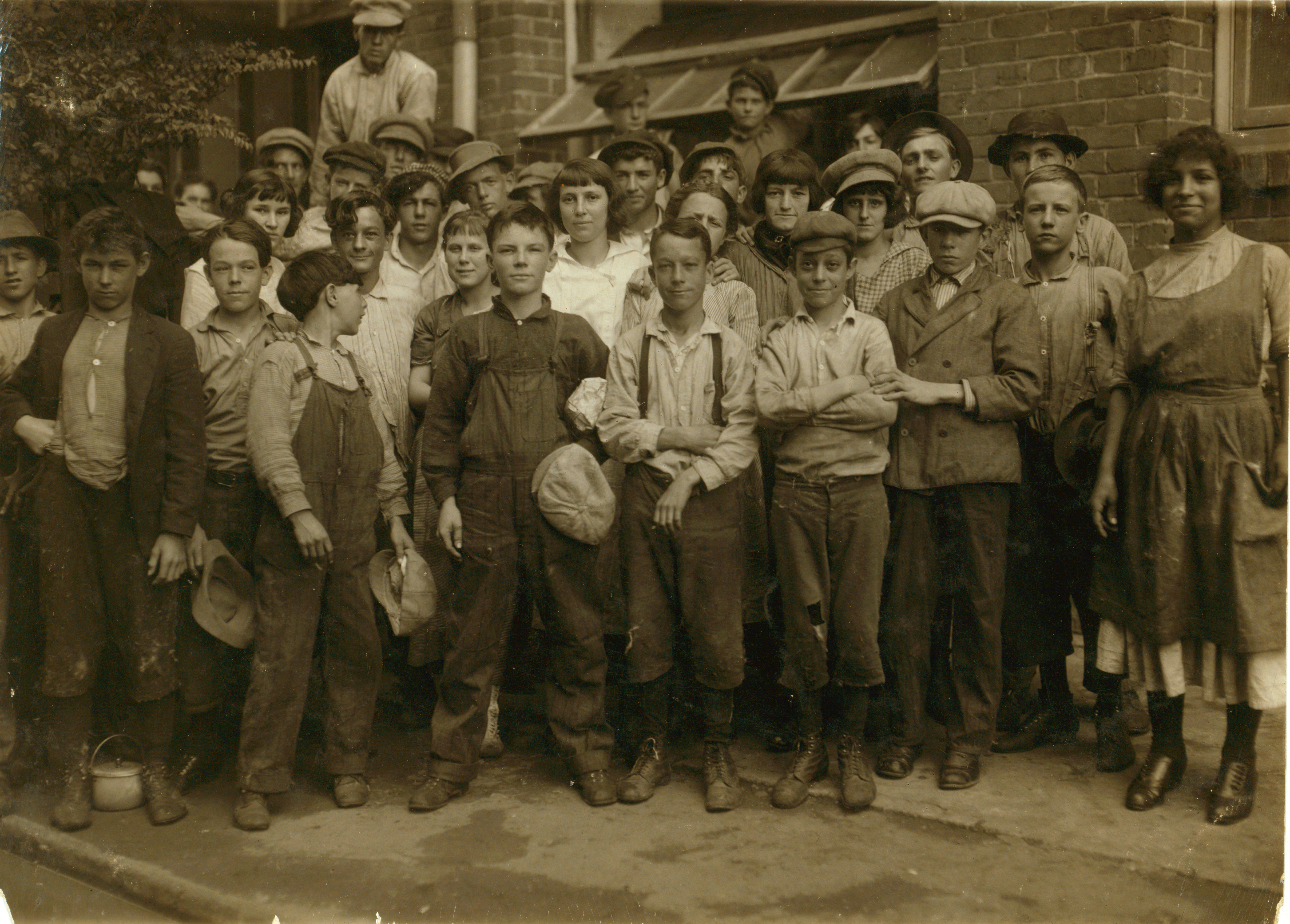 New Orleans, 1913. "Group of workers in Lane Cotton Mill, New Orleans, showing the youngest workers, and typical of conditions in New Orleans. Violations of the law are rare. Location: New Orleans, Louisiana."